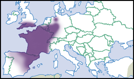 Phenacolimax major (Férussac, 1807). Distribution in Europe, scientific state of knowledge of 2012. Source description in English. Light colour indicated rare occurrences or regions where the species could eventually be expected to occur. Dark colour indicated relatively reliable occurrences, as well as regions where the species was expected to occur, and where the species was not known to be extremely rare. Dark colour indications were not necessarily based on published records. Species summary in AnimalBase